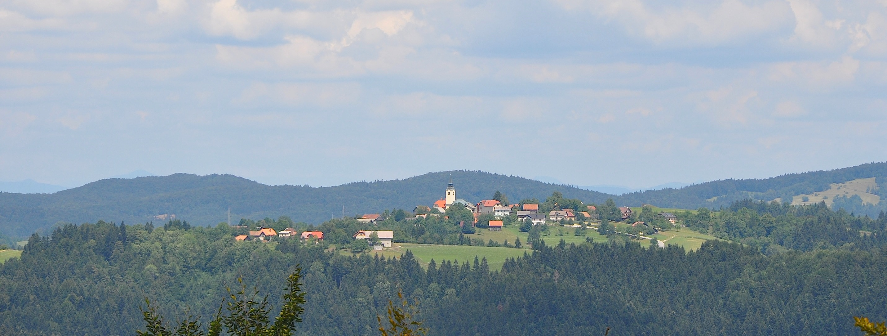 Sveti Gregor, village near Sodražica, Slovenia